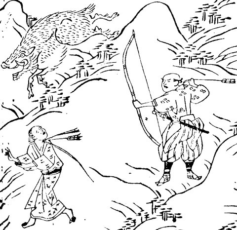 Nekomata (猫又, a bakeneko with a split tail) from the "Tonoigusa" (宿直草)